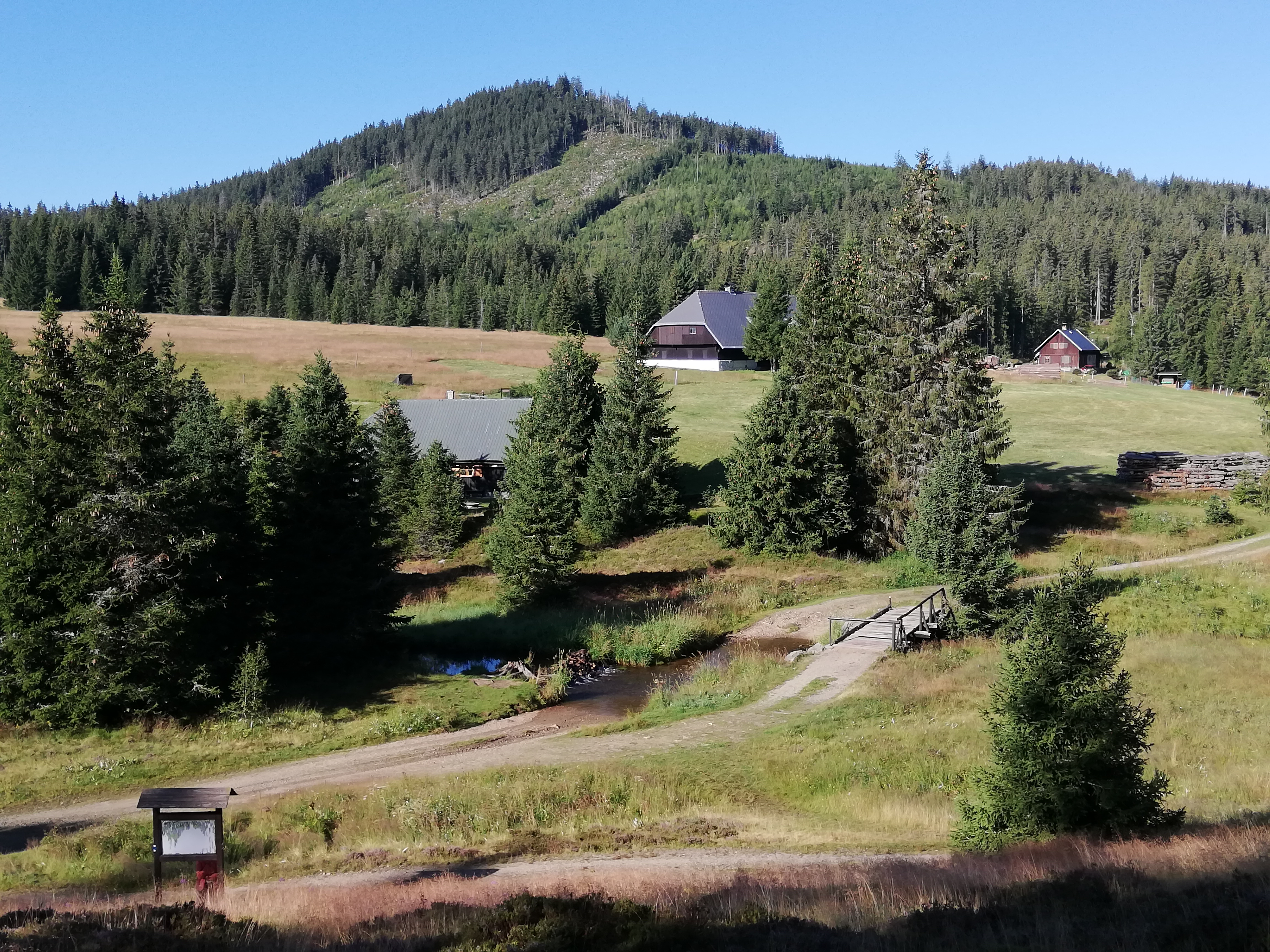 „Hamer houses“ - a former settlement on the left bank of the Hamer brook belonging to Horská Kvilda with several preserved old houses. The settlement was located at an altitude of about 1025 m above sea level, at the northeastern foot of the top of Sokol (Antýgl, 1253 m). Currently (year 2019) these are two houses registration number 22 (GPS coordinates: 49 ° 3'17.346 "N, 13 ° 32'52.385" E) and registration number 1 (GPS coordinates 49 ° 3'16.555 "N, 13 ° 32'48 .585 "E). Photo from the public road at Hamer brook on the route from Antýgl to Horská Kvilda.